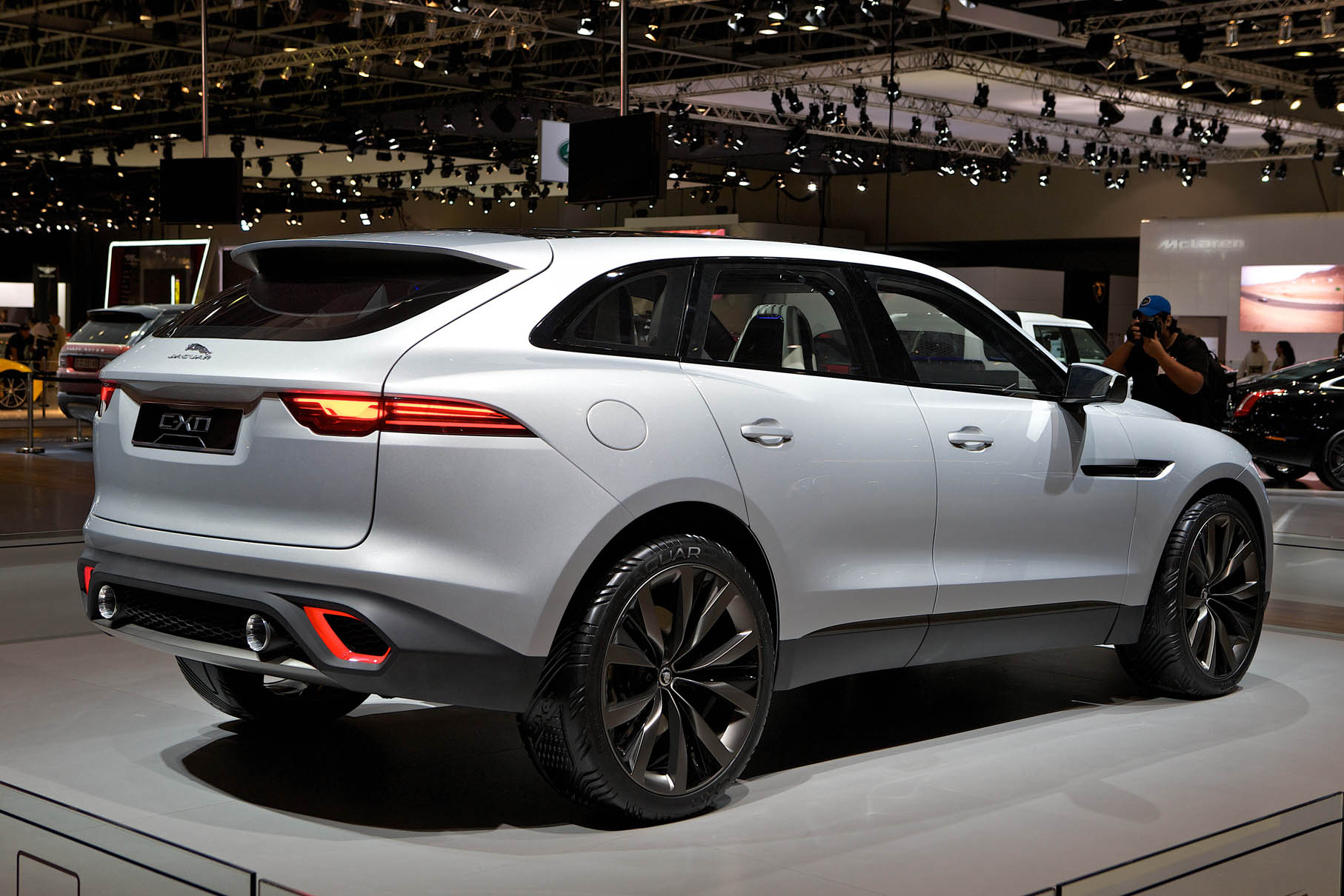 Luxury automotive manufacturer Jaguar Land Rover today revealed a sneak preview of the next generation of its technologically advanced vehicles at the Dubai International Motor Show. Regional reveals included the Jaguar C-X17 Crossover Concept and the dynamic all-aluminium Project 7 roadster from Jaguar which debuted beside the model it was based on, Jaguar’s acclaimed F-TYPE.